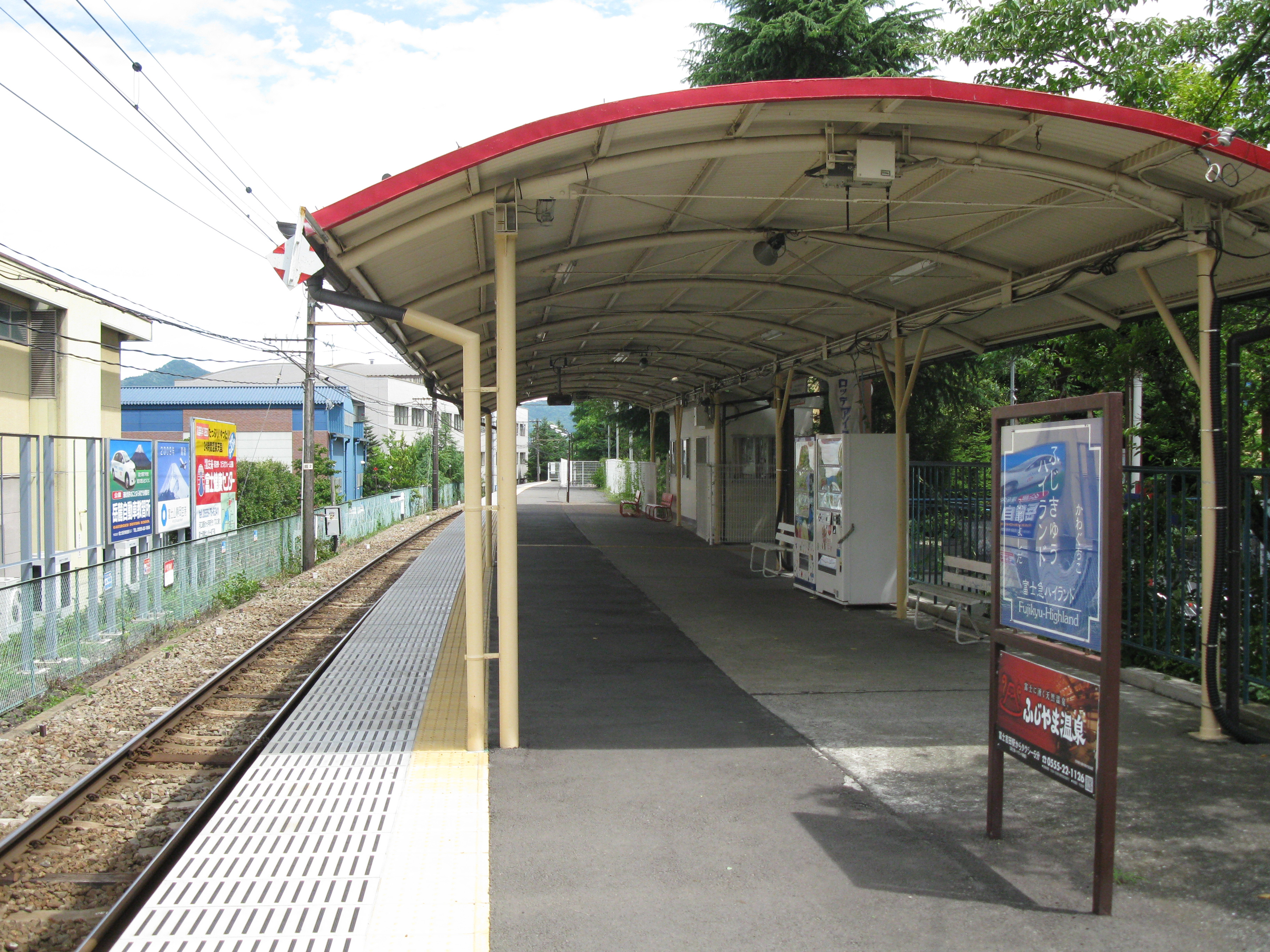 Fujikyu Highland Station platform (Fuji Kyuko Kawaguchiko Line)